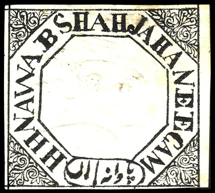 Bhopal Government postage - HH Nawab Shahjahan Begam